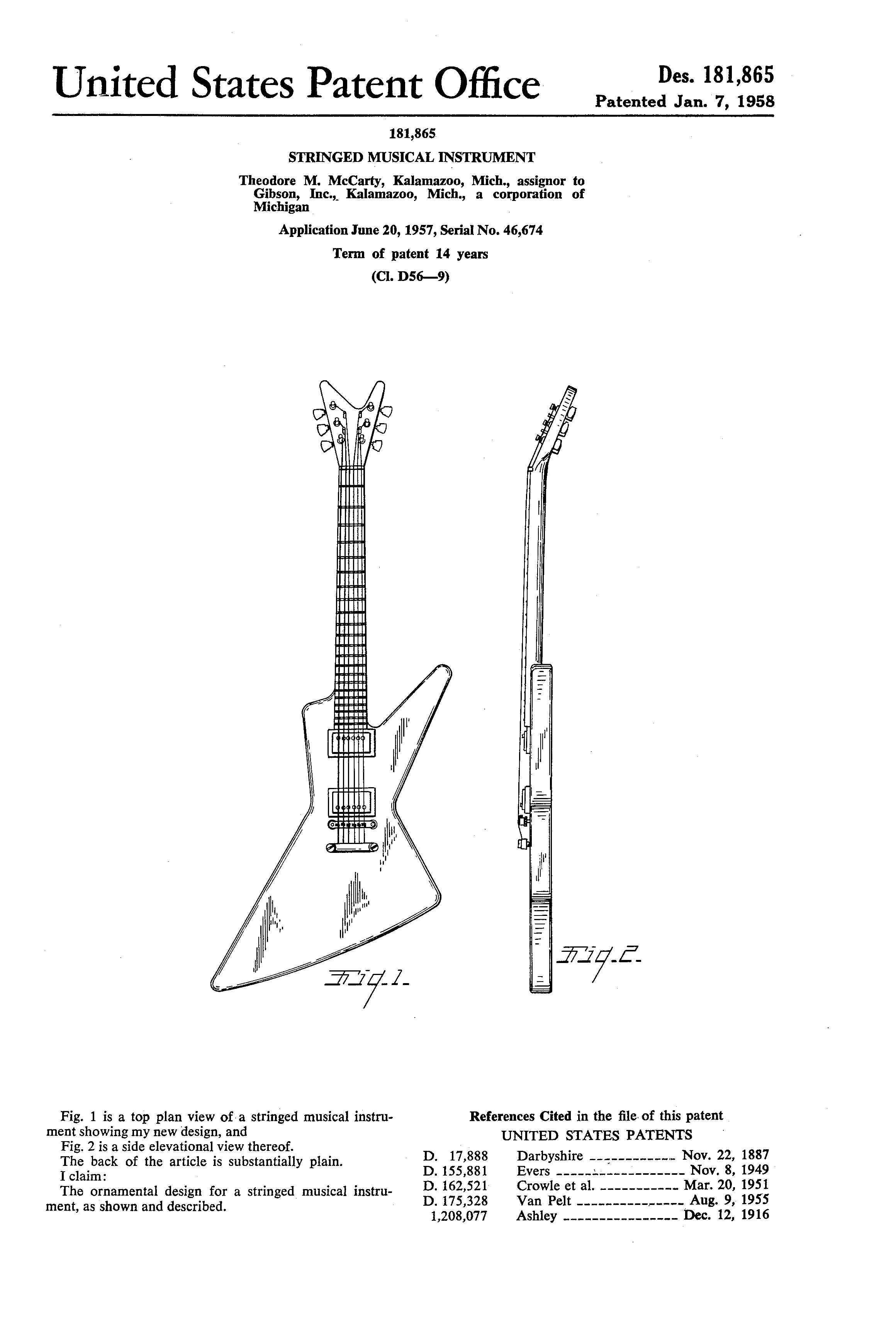 Patent drawing of Gibson Futura design which would become the Gibson Explorer